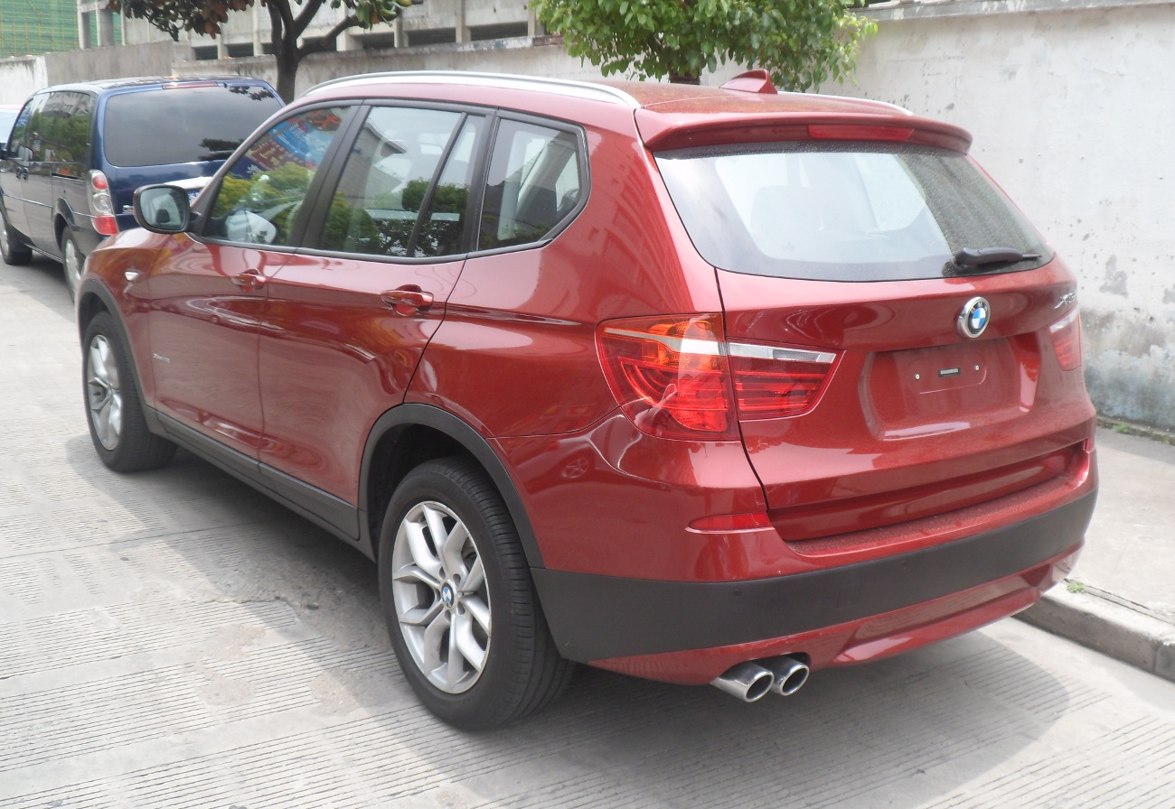 BMW X3 F25 photographed in Shanghai, China.